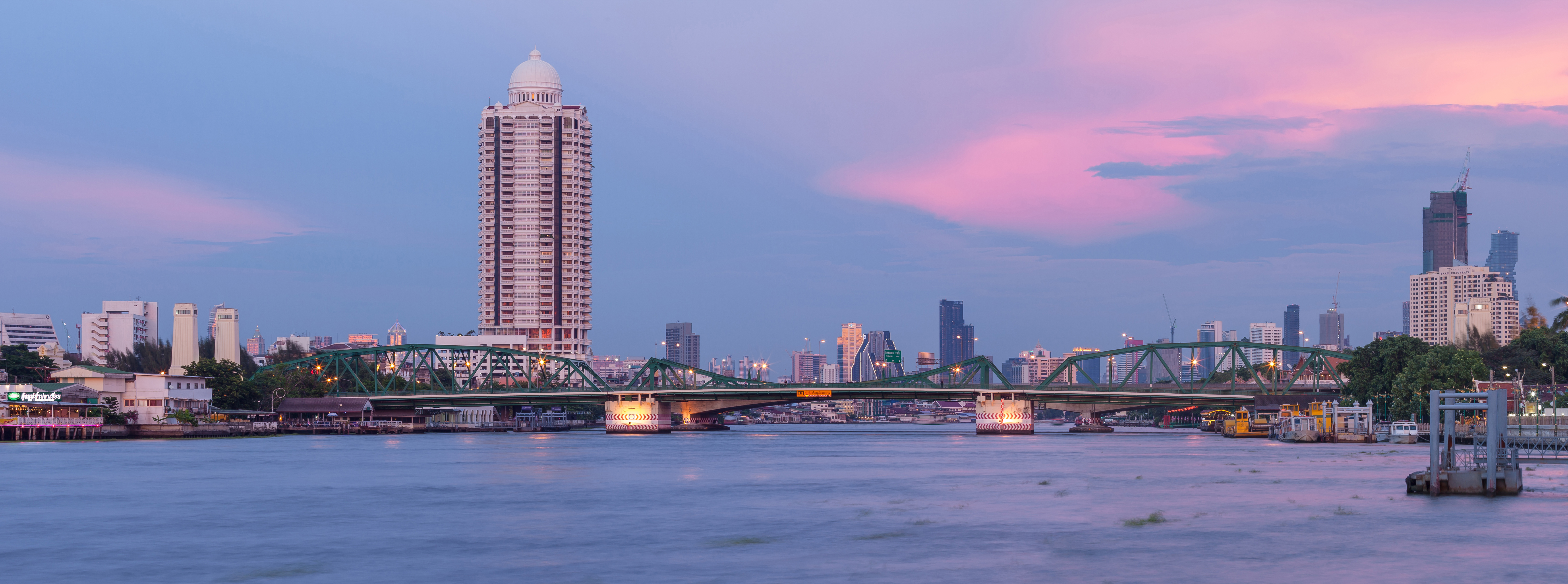 The Panoramic view of Phra Phuttha Yodfa Bridge, Bangkok.